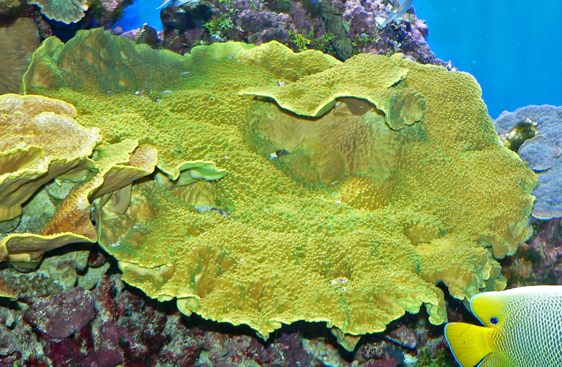 Photo of Turbinaria reniformis at the Birch Aquarium in San Diego